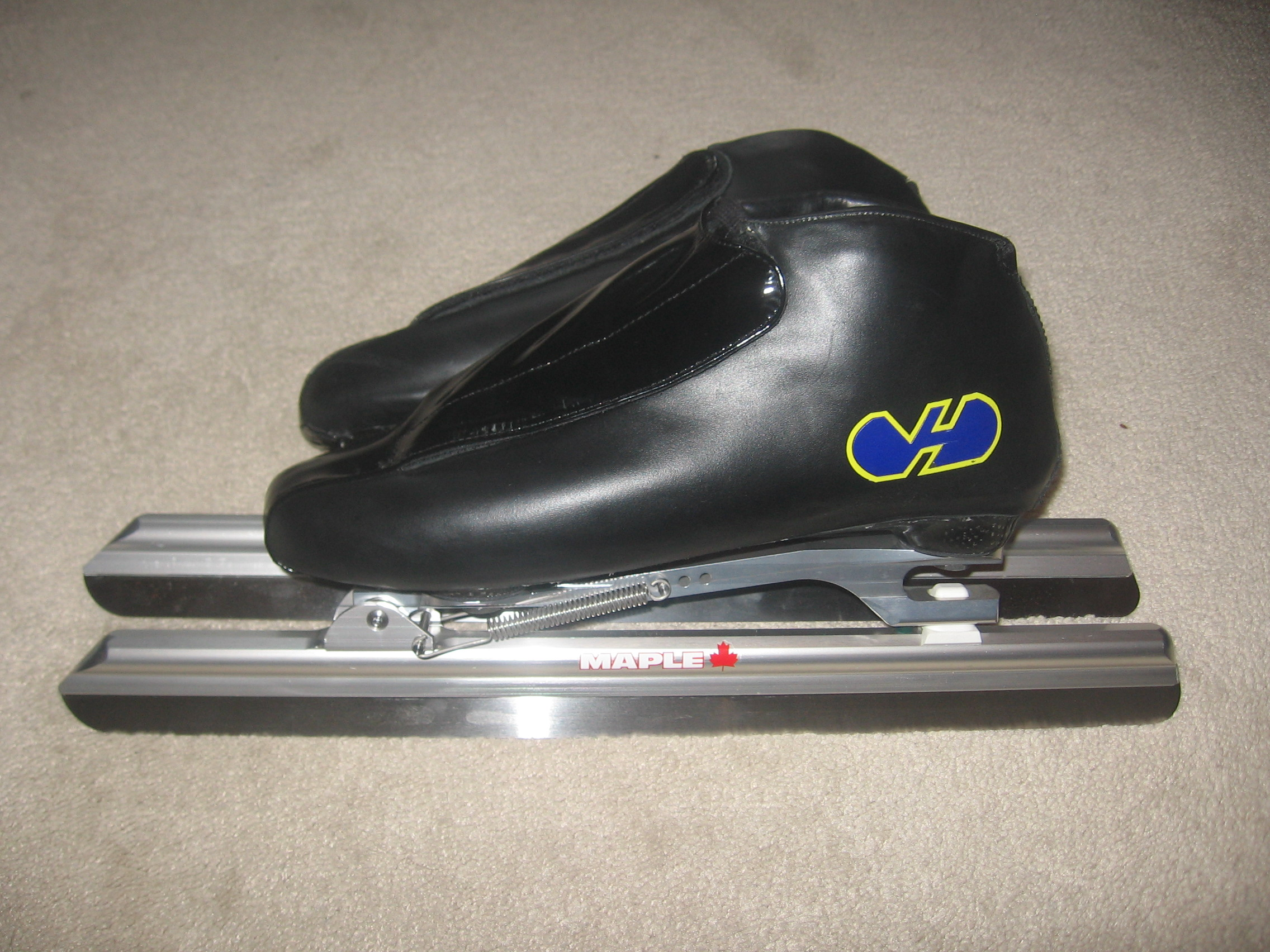 Maple Blizzard Clap skate blade mounted on a Stock Van Horne skate boot.